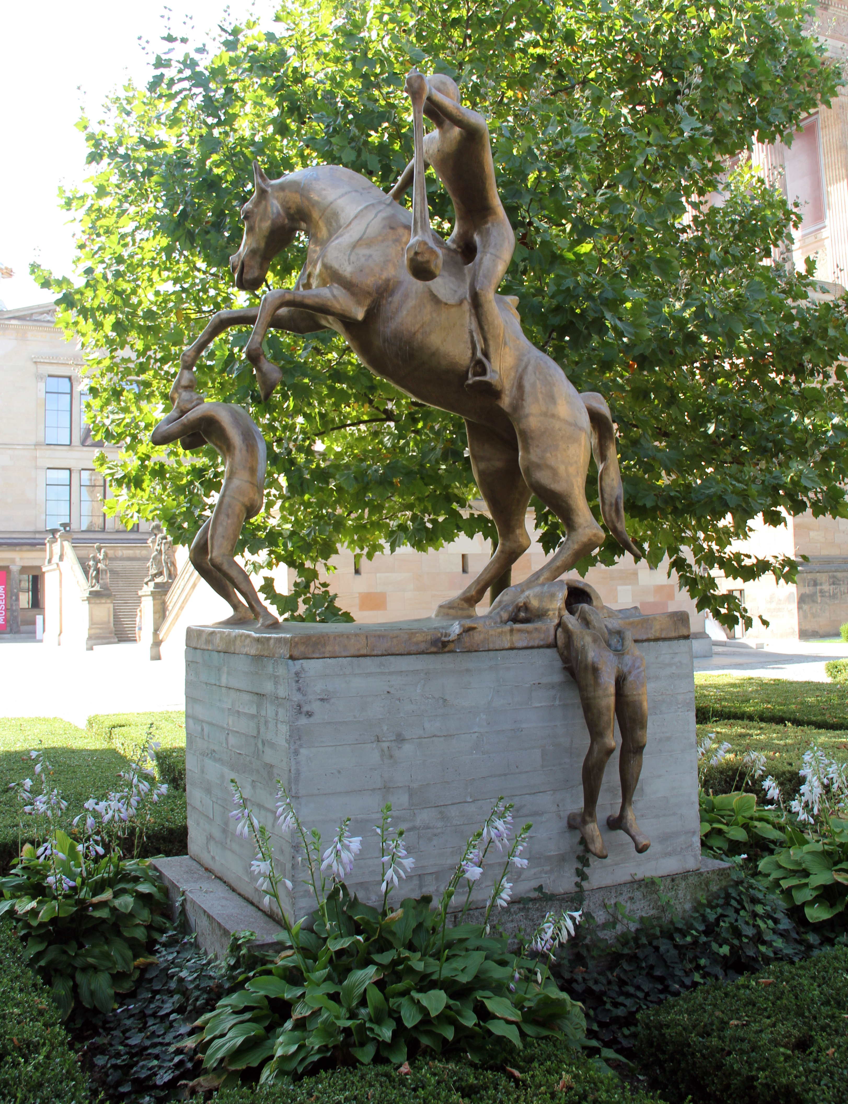 Sculpture, "The Monument" by Atelier van Lieshout, 2015, Bodestraße 1-3, Berlin-Mitte, Germany